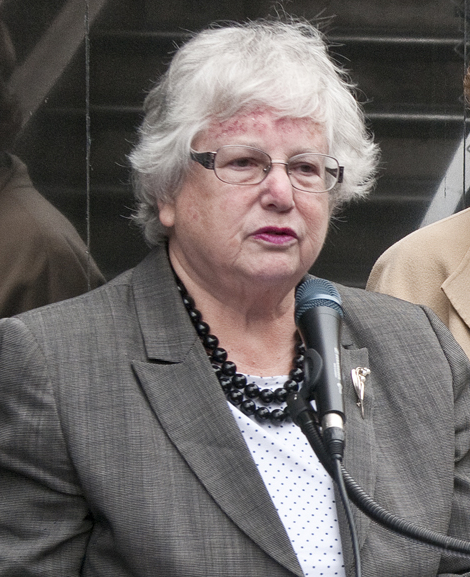 On March 2, 2012, legislators and MTA officials announced plans for the installation of ADA-compliant elevators at the Flushing-Main Street LIRR station. In this photo: Claire Shulman, former Queens Borough President and current President and CEO of the Flushing Willets Point Corona Local Development Corporation; Senator Toby Ann Stavisky; Assembly Member Grace Meng; LIRR President Helena Williams. Photo by Metropolitan Transportation Authority / Patrick Cashin.